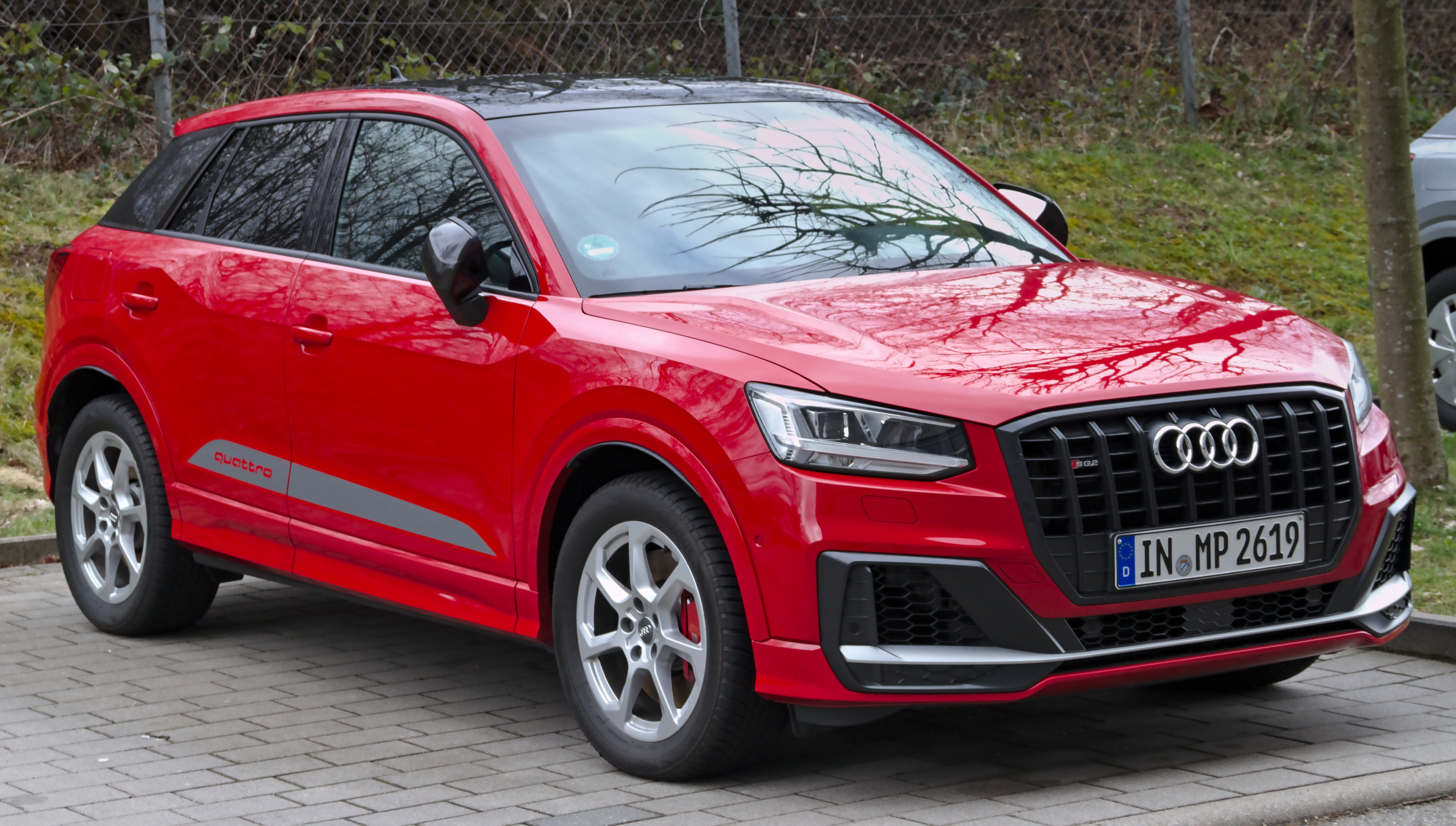 Audi_S_Q2 in Stuttgart-Vaihingen